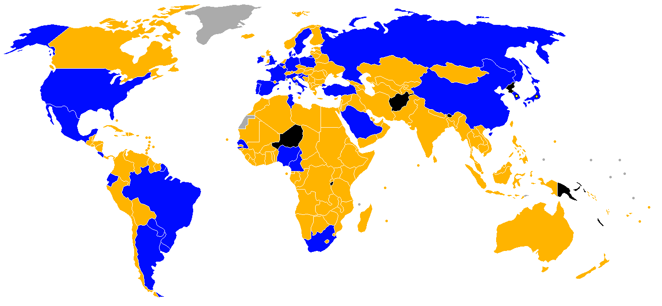 Status of countries with respect to 2002 FIFA World Cup: Qualified for World Cup finals Failed to qualify for World Cup finals Did not enter World Cup Not an associate member of FIFA